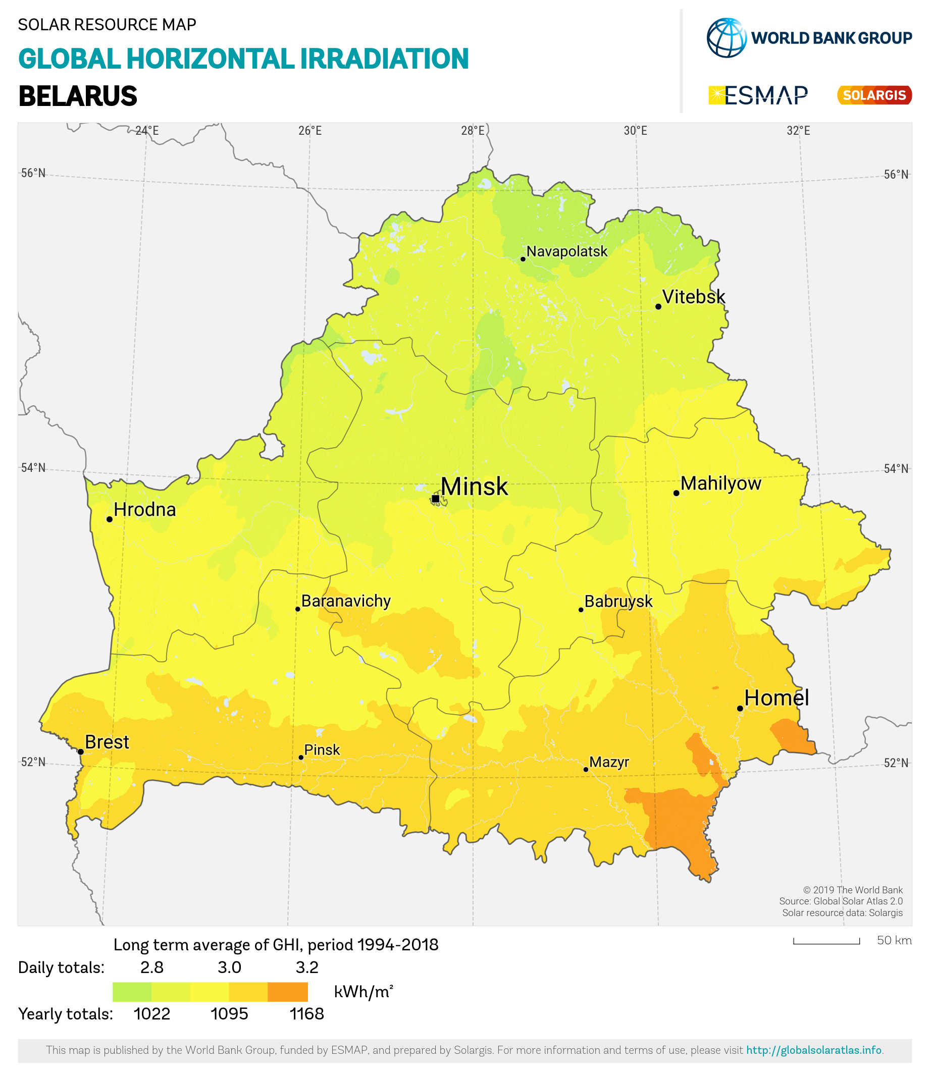 Global Horizontal Irradiation of Belarus